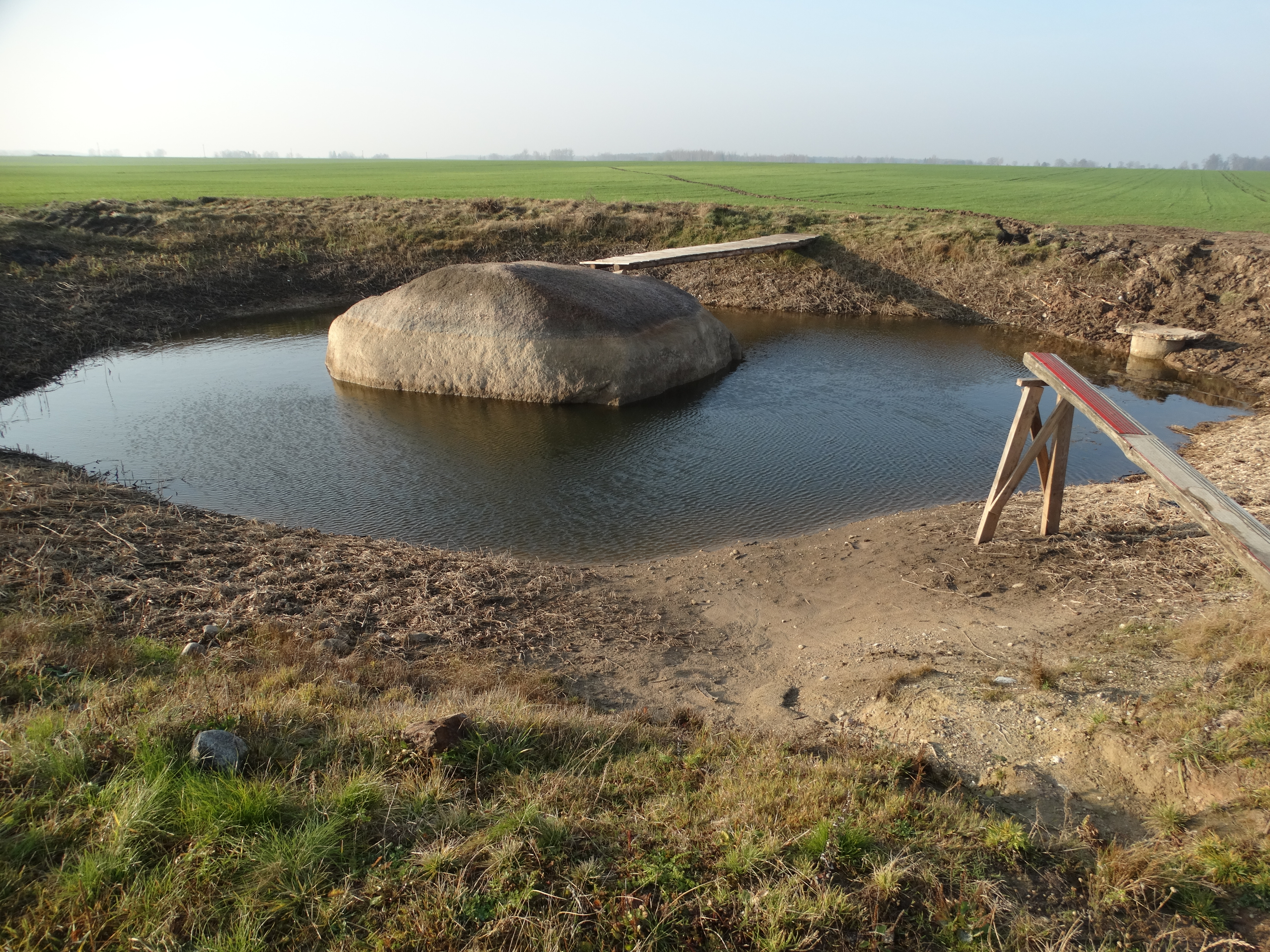 Banionių Stone, Panevėžys District, Lithuania